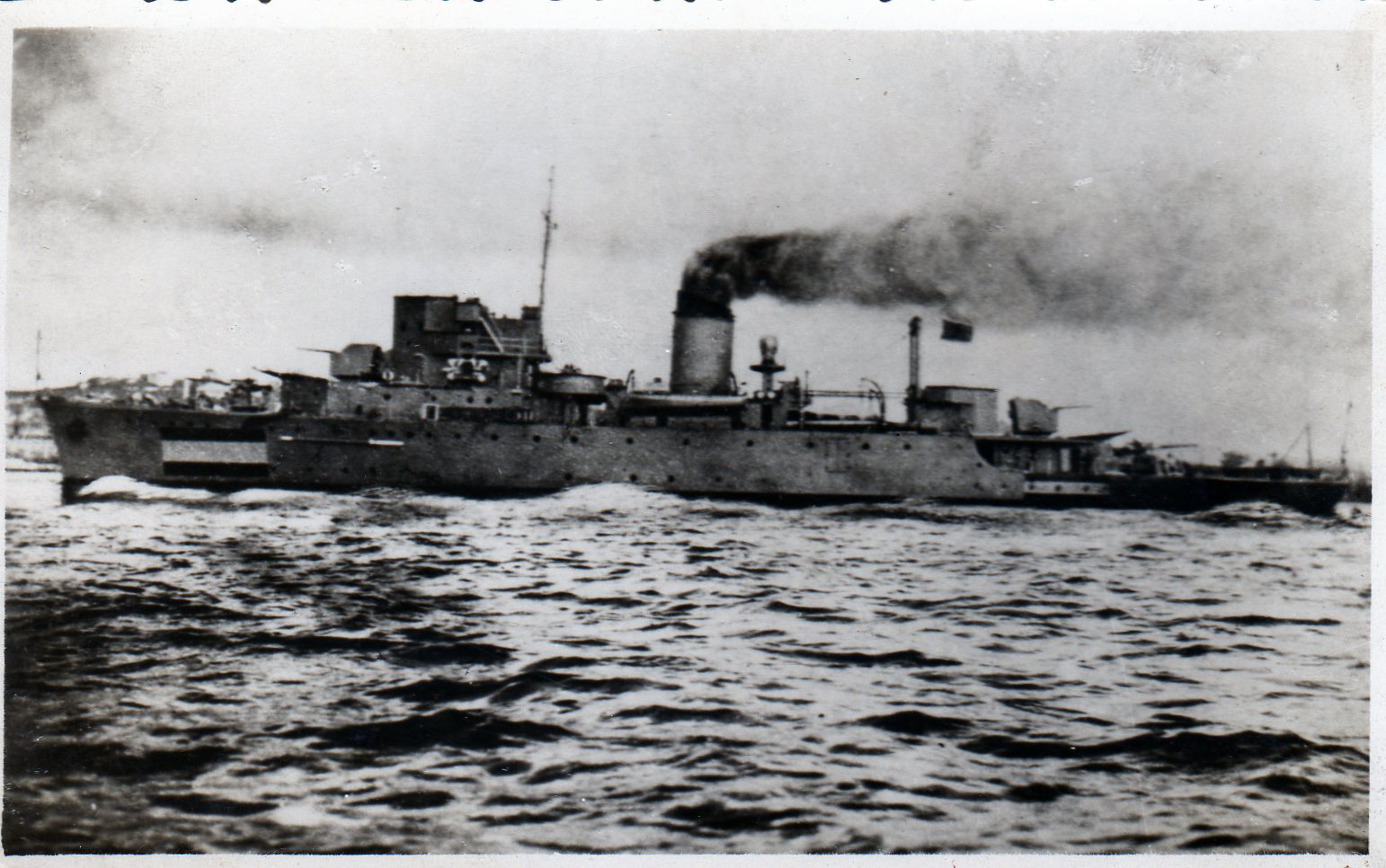 Spanish gunboat-mine layer Eolo (F-21)